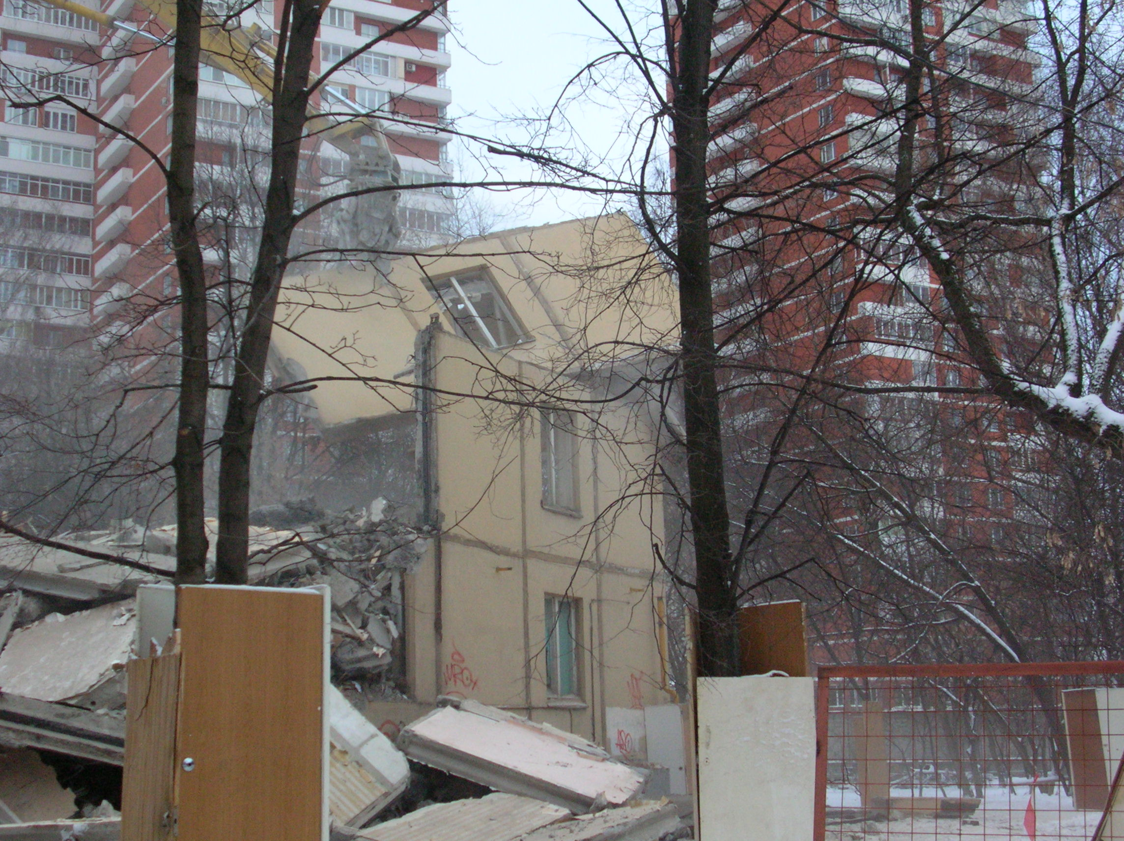 Destroying of 5-floor house (so-called 'khruschevka') in Moscow